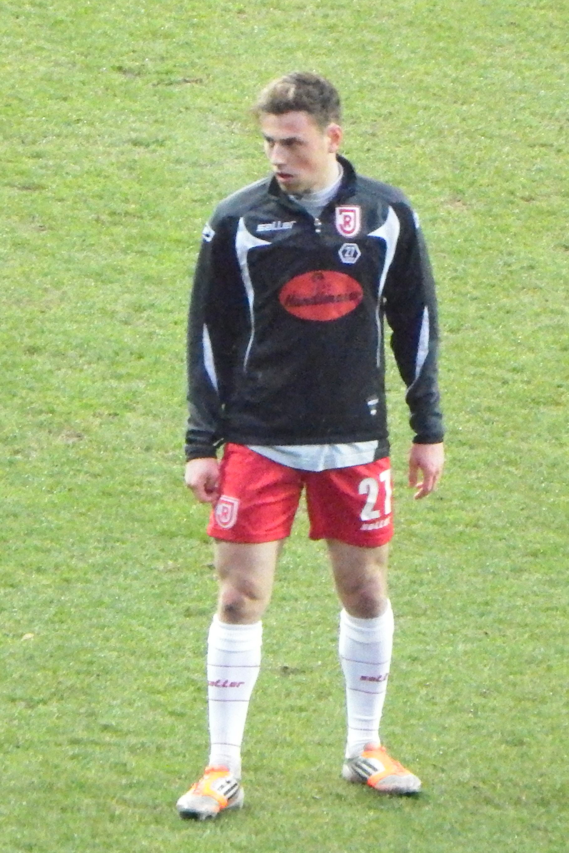 Julian Wießmeier as Player from Jahn Regensburg